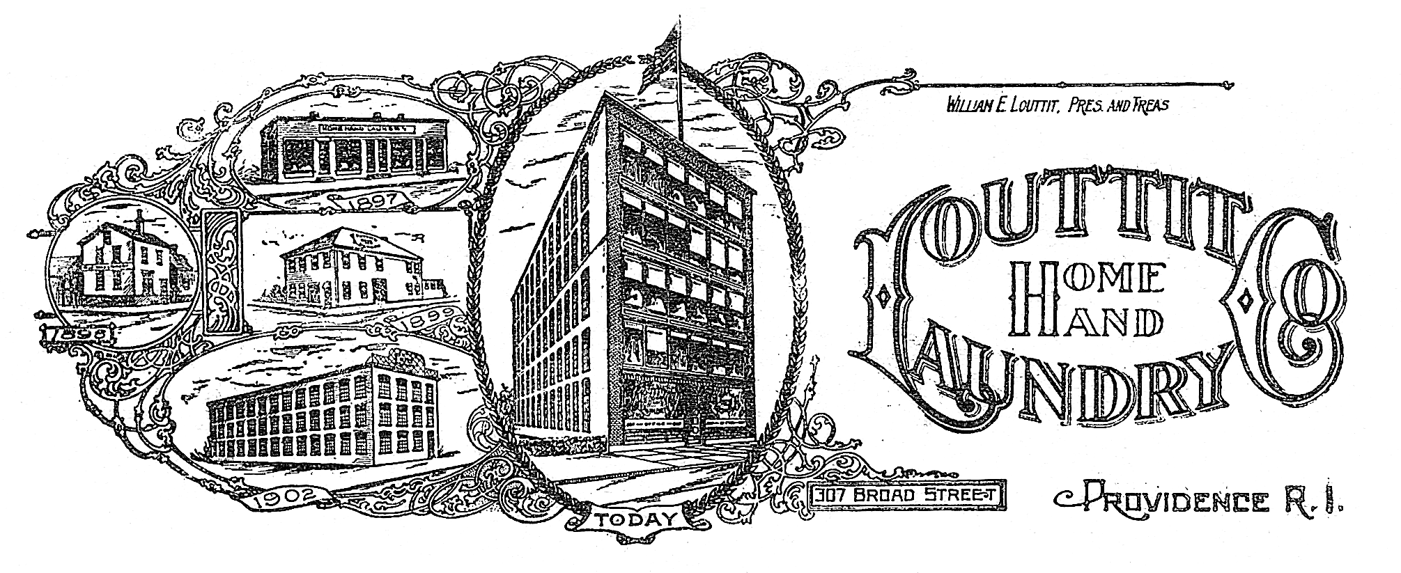 A scan of the masthead of a receipt for Louttit Home Hand Laundry, Providence, Rhode Island, dated September 30, 1912. Former buildings shown, as well as "today's" building at 307 Broad Street.